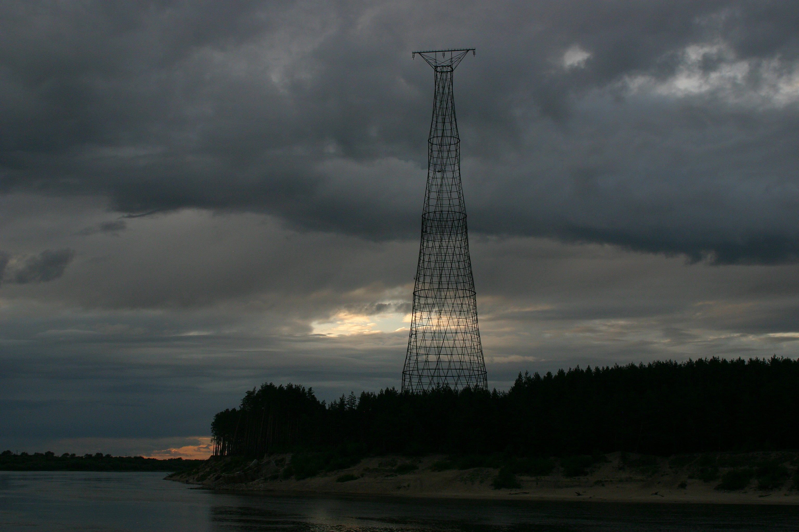 The hyperboloid tower (electricity pylon) on the Oka River was designed by the great Russian engineer and scientist Vladimir Shukhov (1853-1939) in 1929. It is located in Russia, on the left bank of the Oka River near Dzerzhinsk (a western suburb of Nizhniy Novgorod).